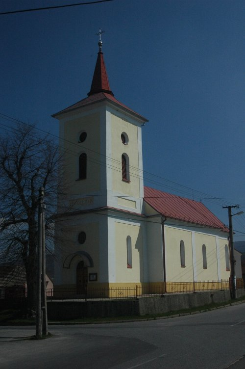 Sebedražie (district Prievidza), church